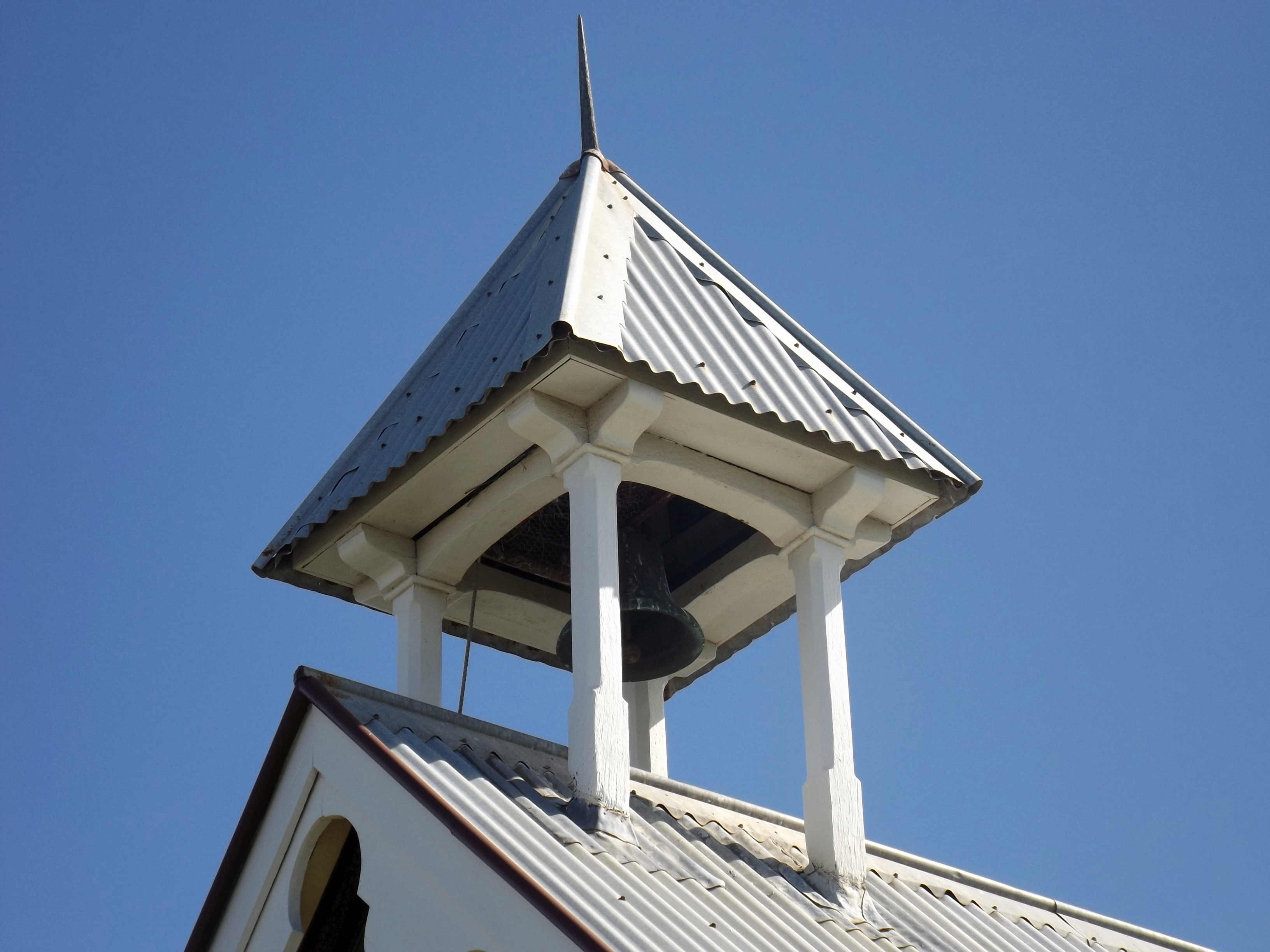 Photo of bell turret of the Hemmant Christian Community Church at Hemmant, Brisbane, Queensland, Australia.